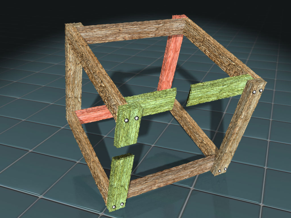 The impossible crate (optical illusion) view 3